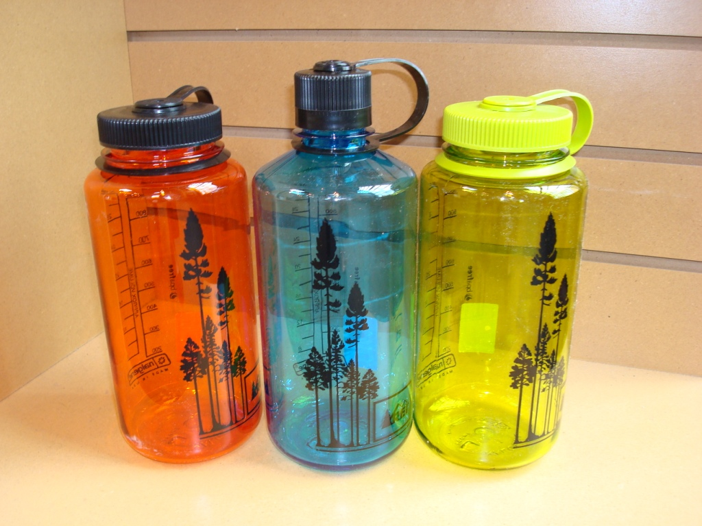 Examples of multi-use copolyester water bottles.